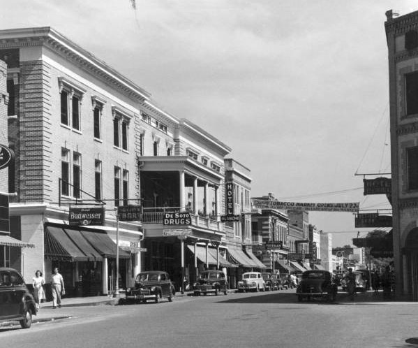 Downtown Lake City, Florida in 1948.